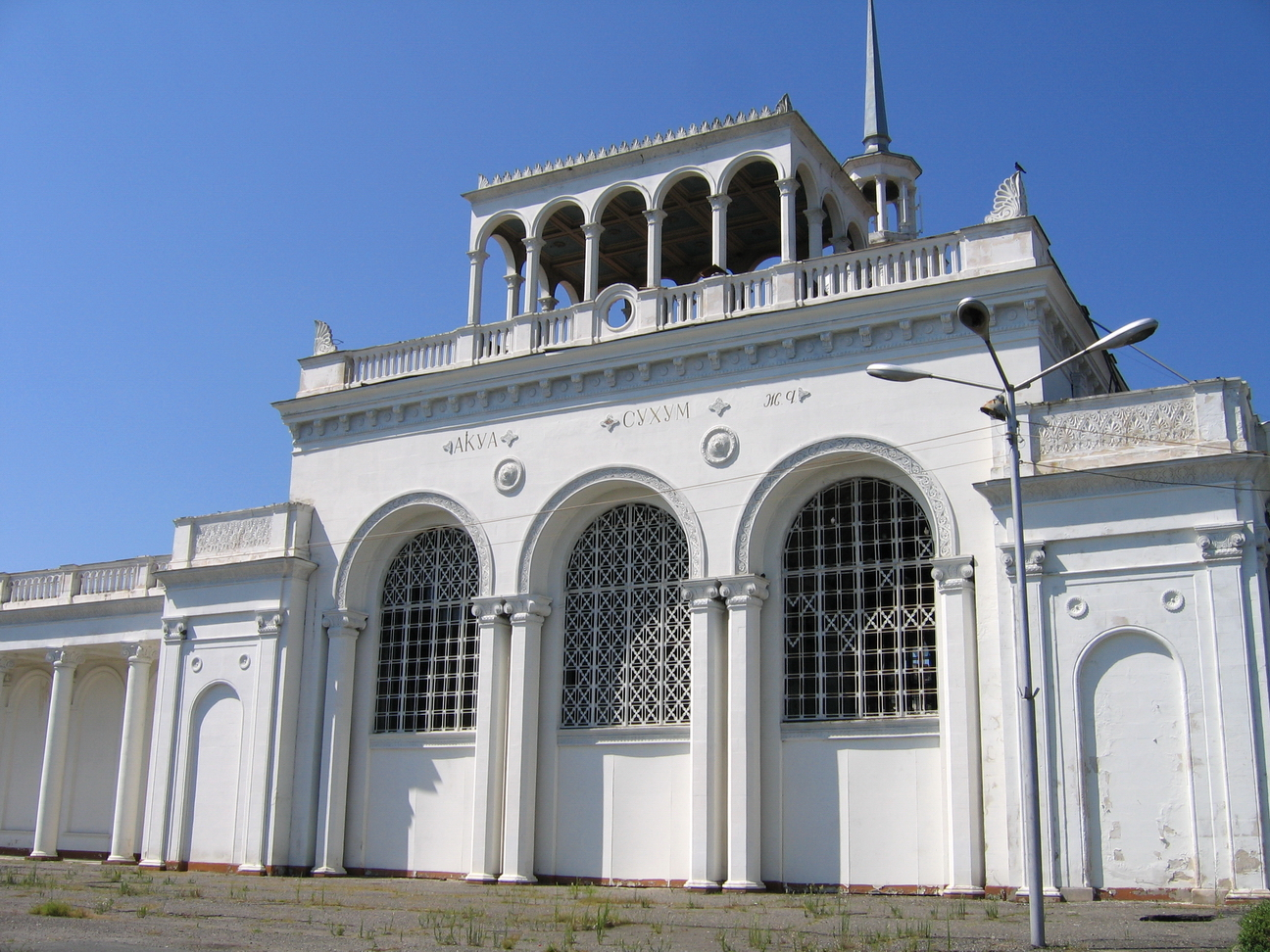 Building of railway Station Sukhumi